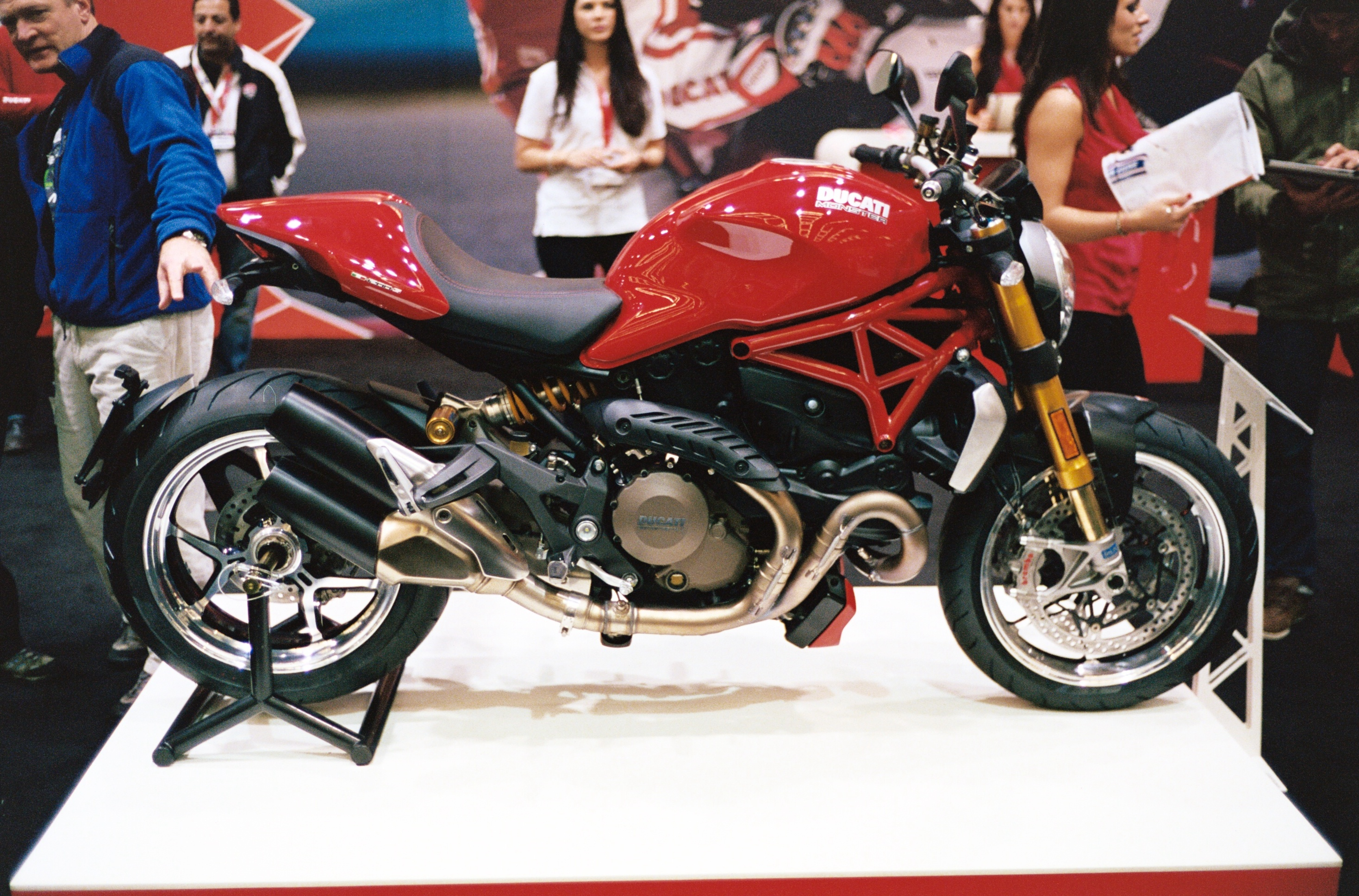 2014 Seattle International Motorcycle Show